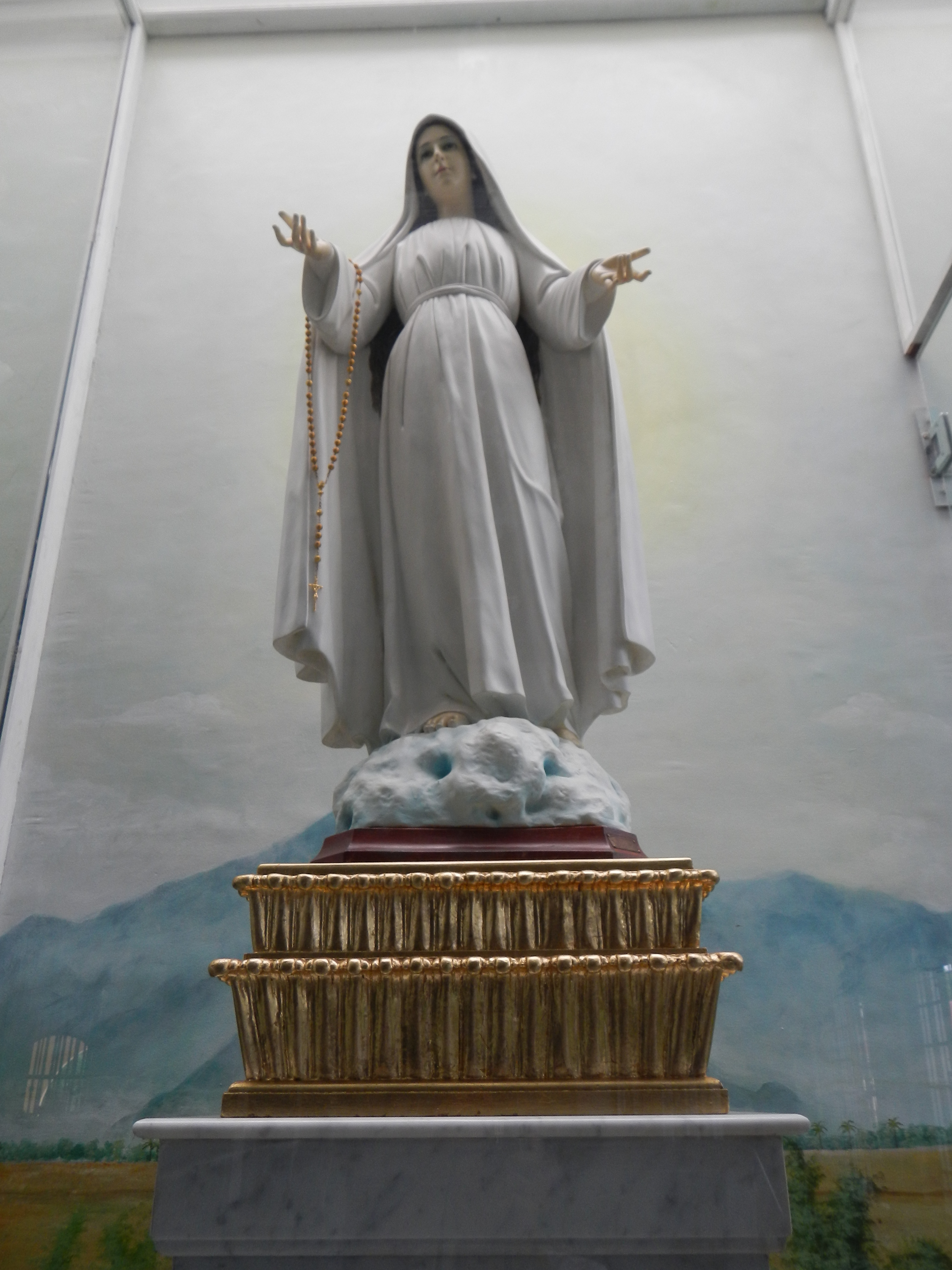 Our Lady Mediatrix of All Graces [1] Our Lady of Mediatrix of All Graces (Spanish: Nuestra Senora de la Medianera de toda gracia